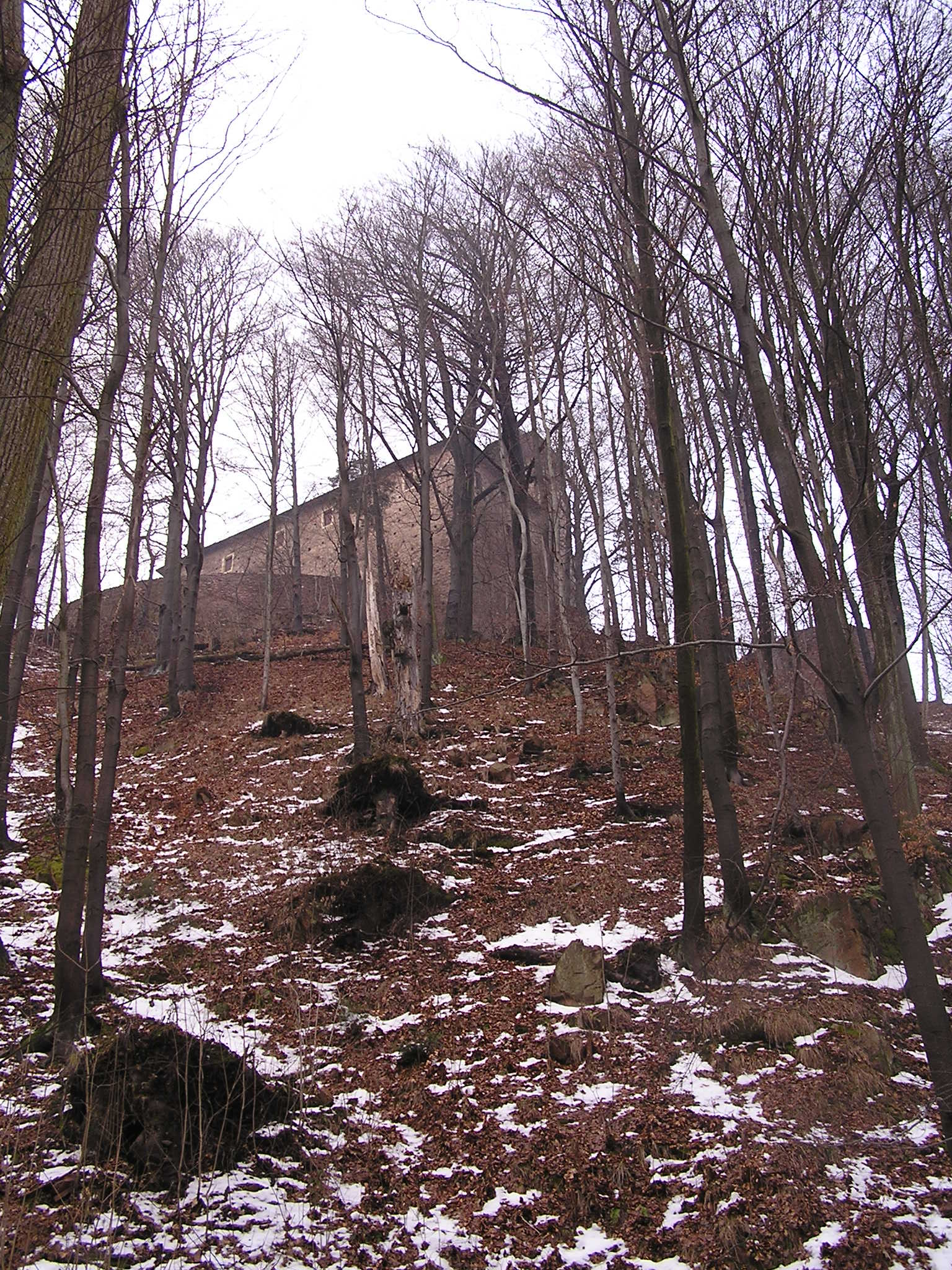 Natural monument Castle hill Litice